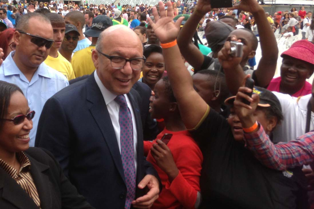 A picture Trevor Manual at the free tribute concert to commemorate Mandela's death at the Cape Town Stadium on Wednesday, 11 December 2013.